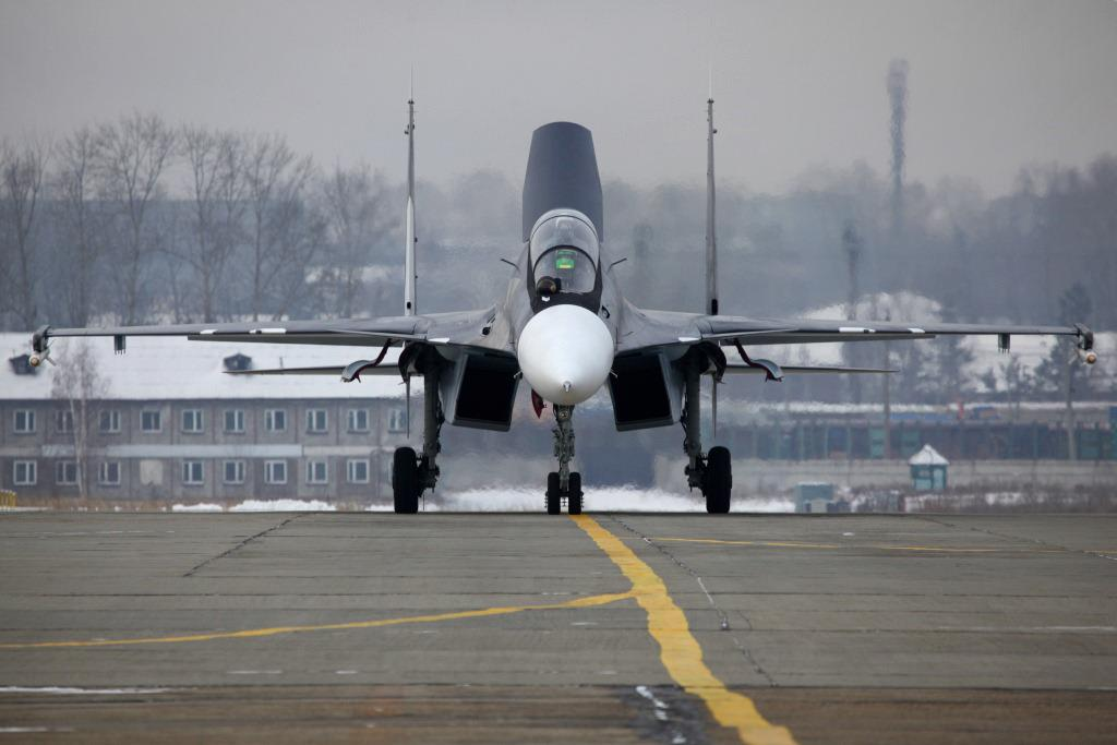 Su-30SM of the Russian Air Force